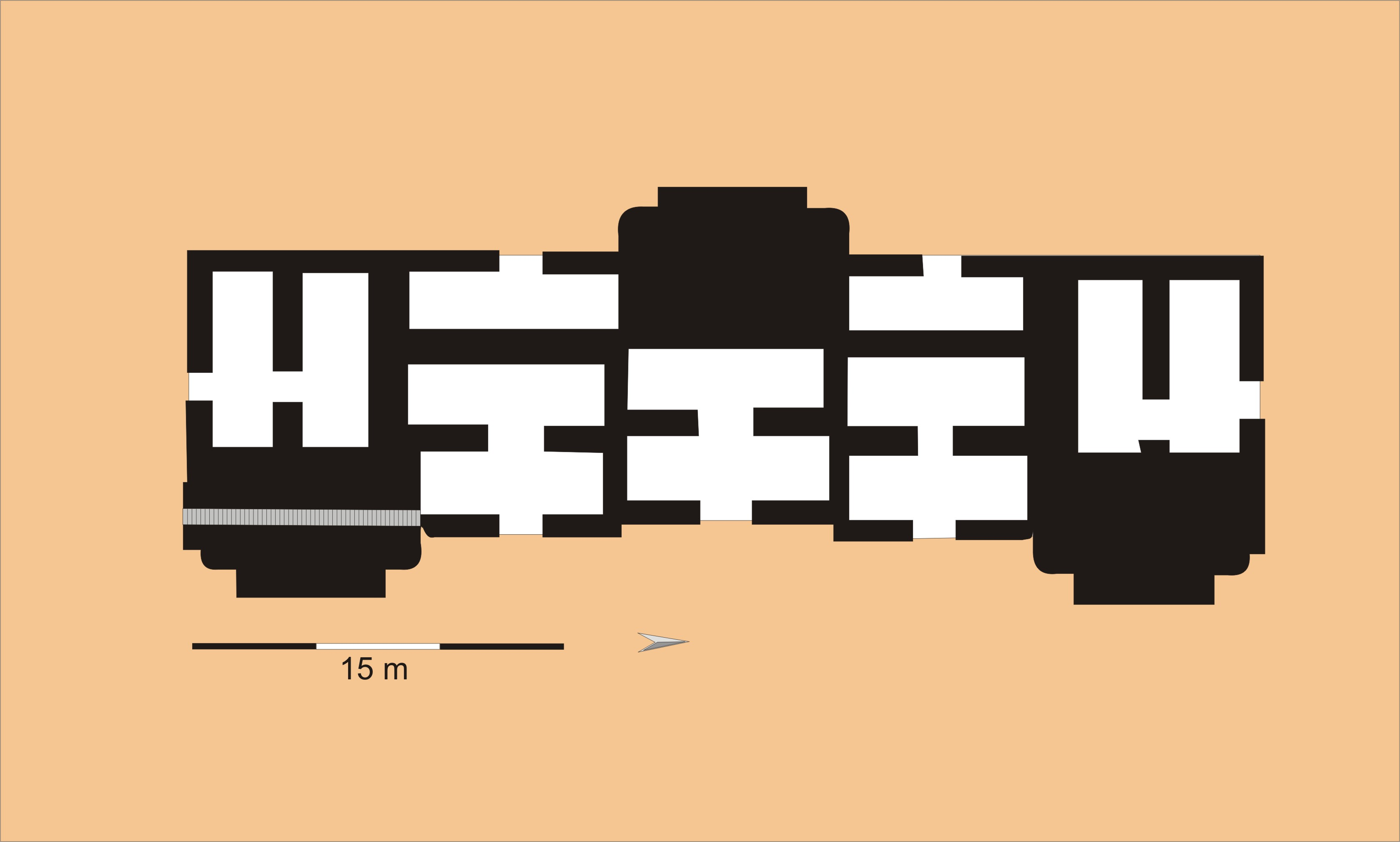 Xpuhil, Campeche, Mexico: plan of main building of group I.